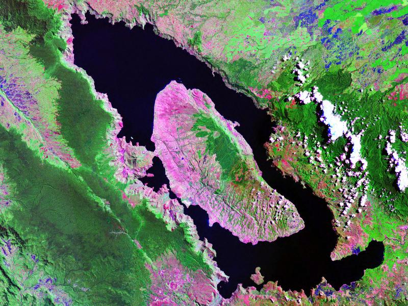 Lake Toba, Sumatra, Indonesia - Landsat satellite photo